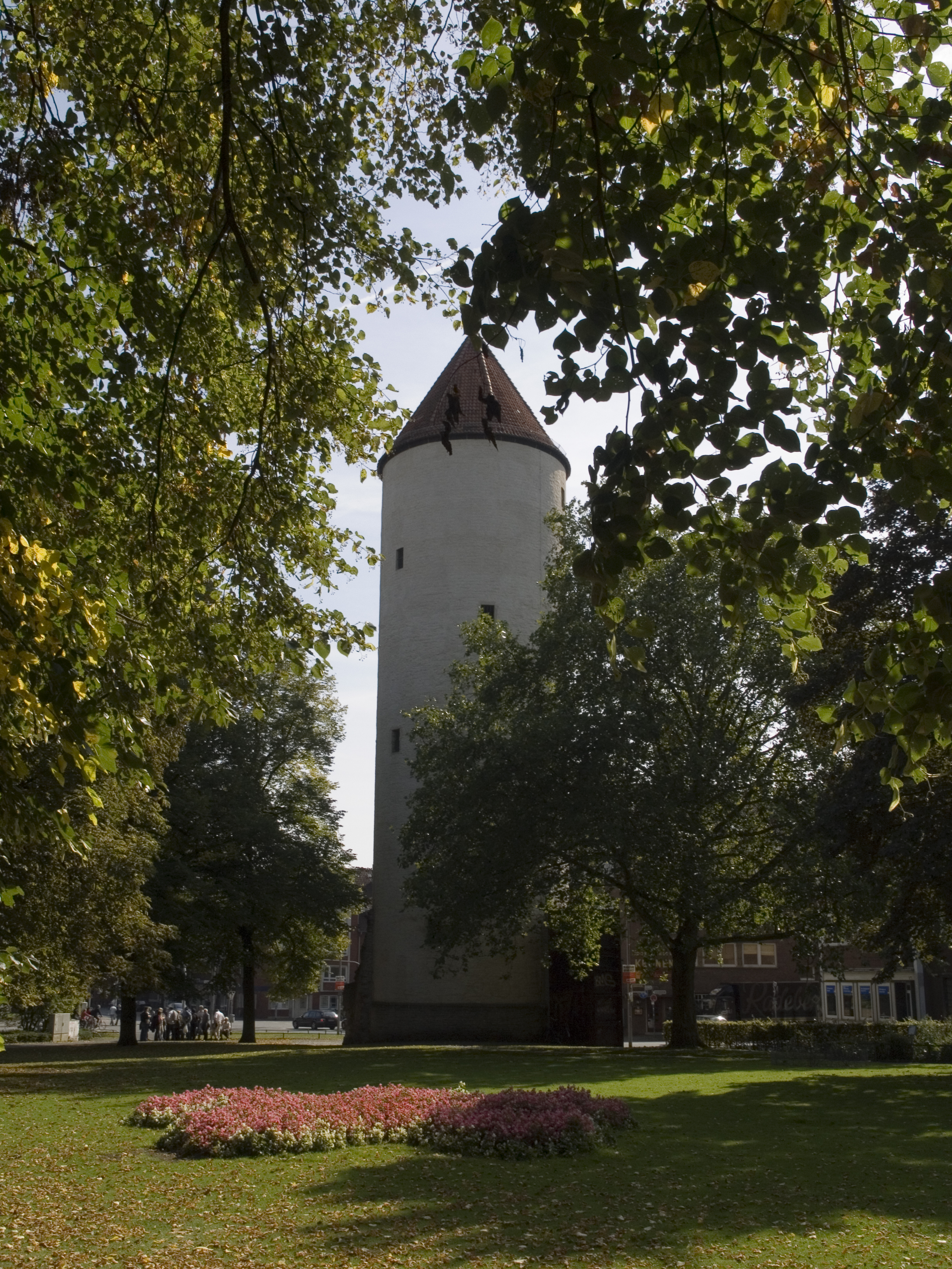 NRW, Munster, Altstadt, Buddenturm